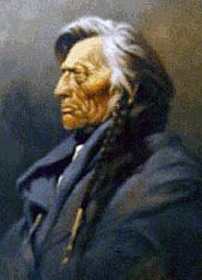 Chief Charlot, oil on canvas, 1910, painted by Edgar S. Paxson (1852-1919). On loan from Women's Club of Missoula to Missoula Art Museum.